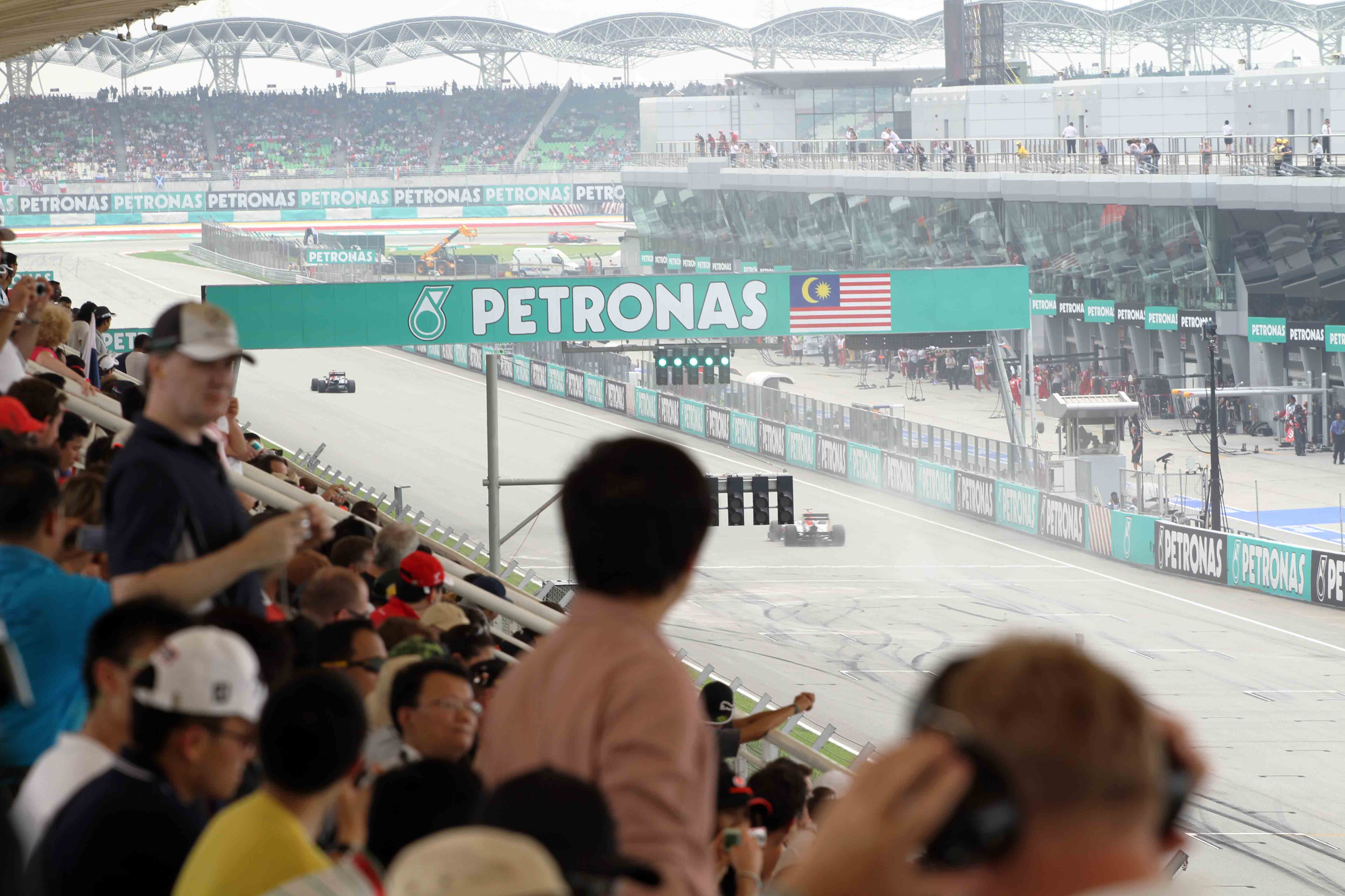 The Sepang International Circuit during the 2011 Malaysian Grand Prix.